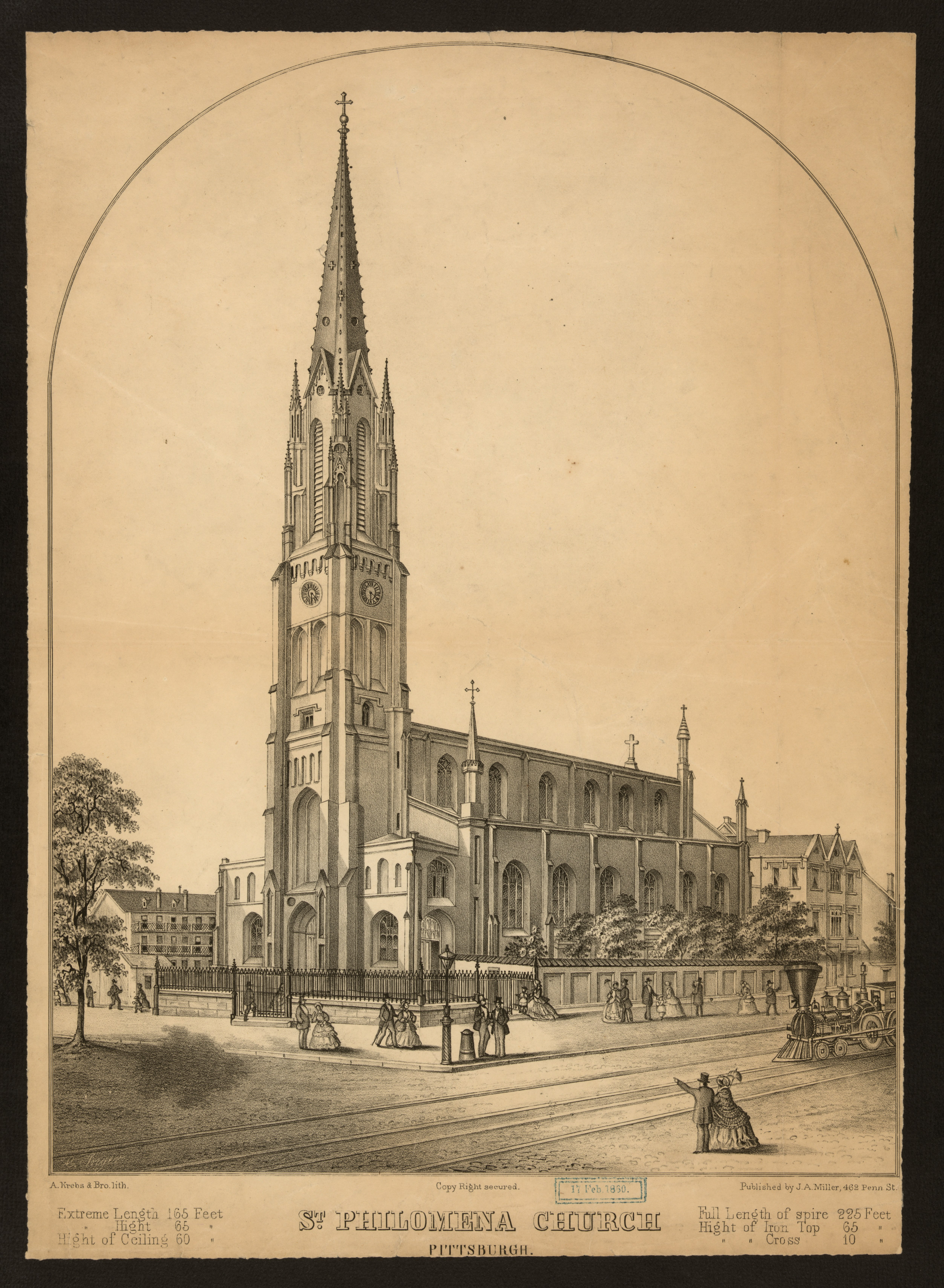 Title: St. Philomena Church Pittsburgh / C. Inger ; A. Krebs & Bro. lith. Abstract/medium: 1 print : lithograph ; 42.5 x 30.8 cm (sheet)